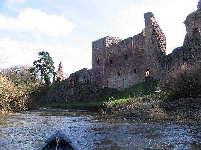 Hailes from the River Tyne The swans scoot off down river past Hailes Castle.